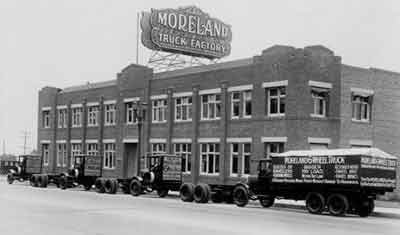 Moreland Motor Truck Co., a truck manufacturer located in nearby Burbank, California that was an early proponent of heavy-duty 6-wheeled truck chassis.